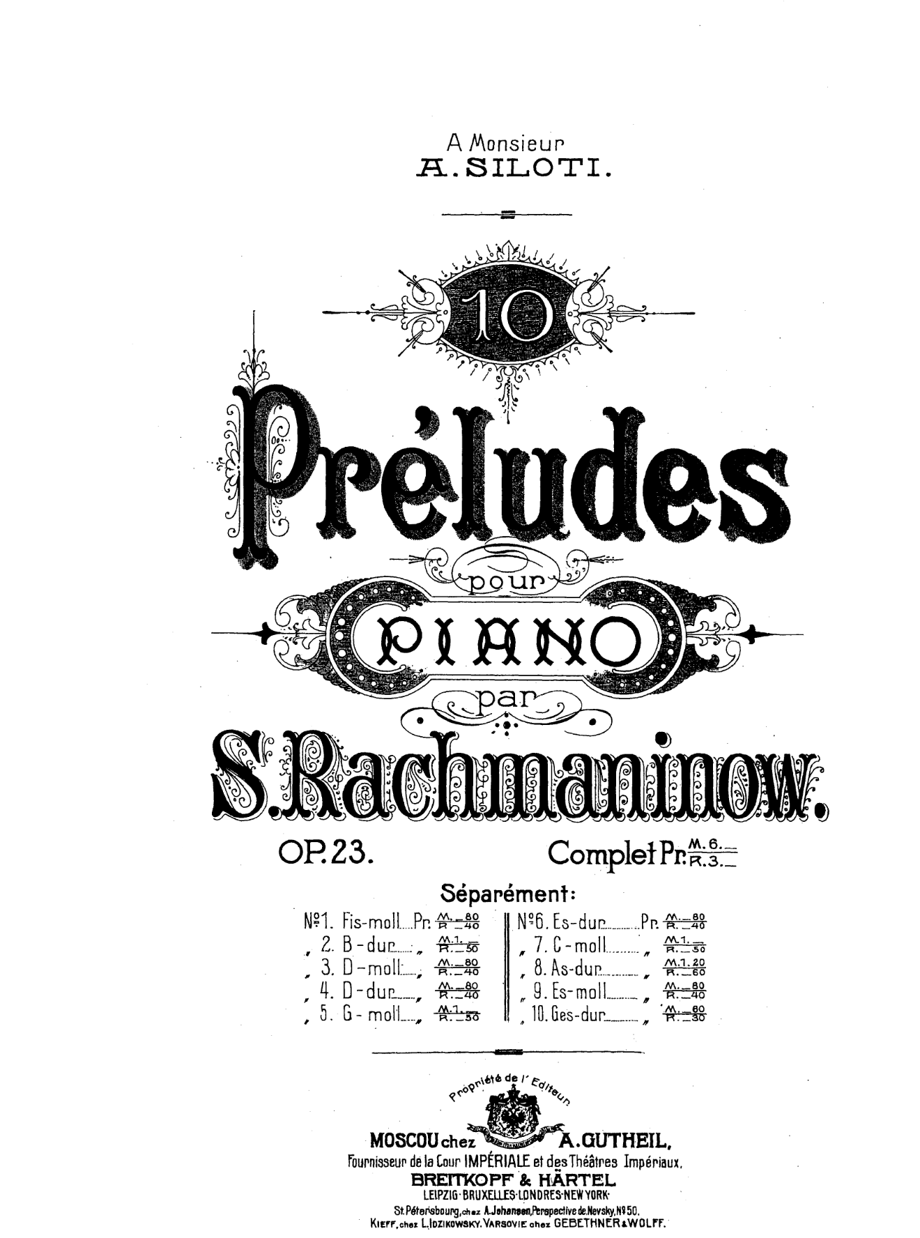 Cover of the first edition of Rachmaninoff's Thirteen Preludes, Op 23 (A. Gutheil)